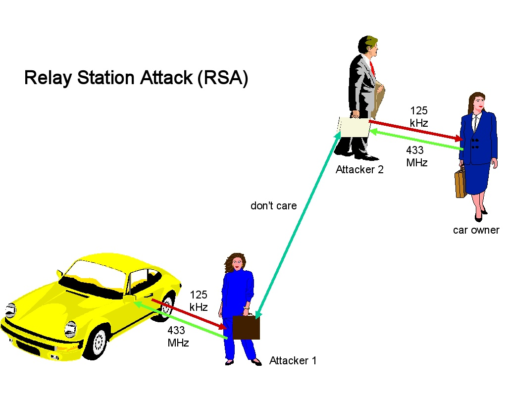 Relay Station Attack. Two relay stations connect over a long distance the owners transponder with the cars transceiver.